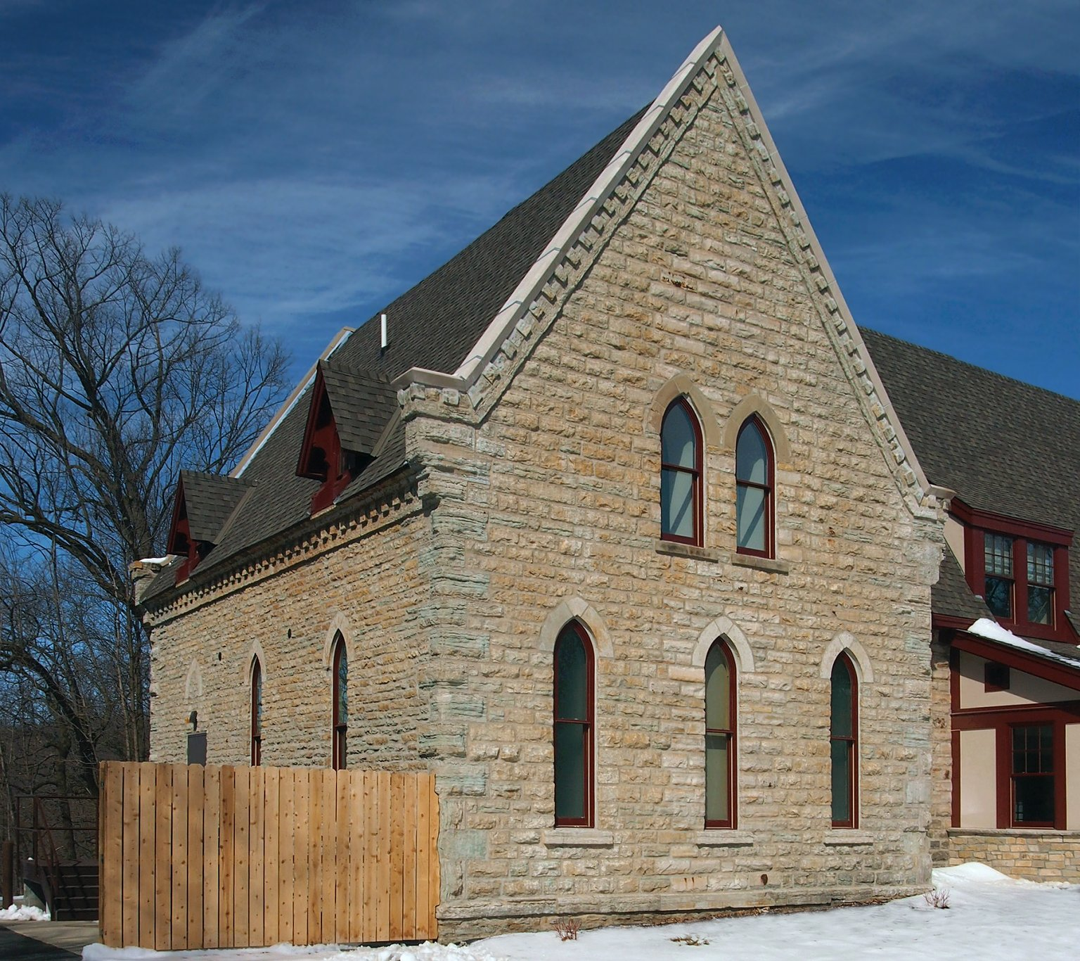 Old Phelps Library (now a wing of The Inn at Shattuck-St Mary's), Shattuck-St Mary's, Faribault, Minnesota, USA. Viewed from the southwest. Individually listed on the NRHP and a contributing property to the Shattuck Historic District.